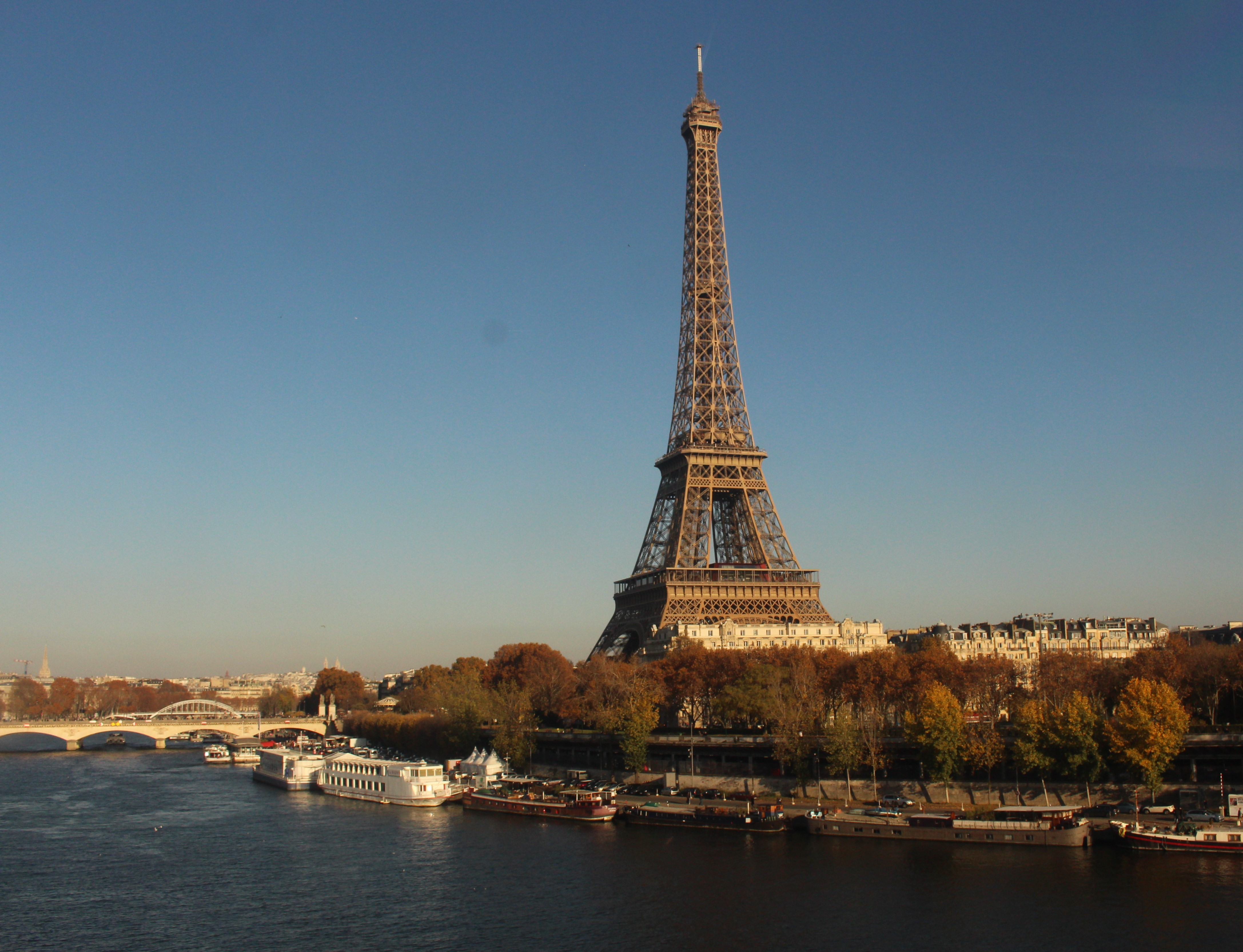 Eiffel Tower and Seine River in 2018's Fall